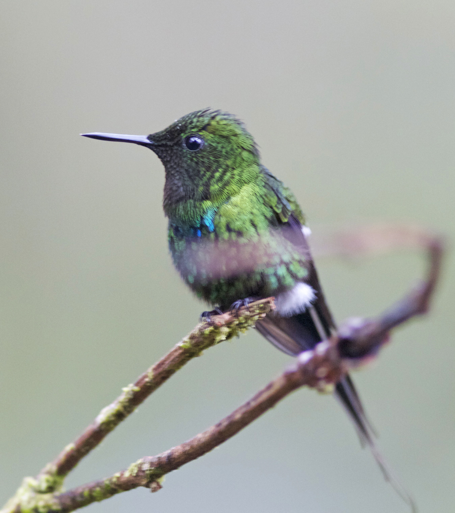 Green Thorntail photo taken at Milpe Bird Sanctuary, (northwest) Ecuador.